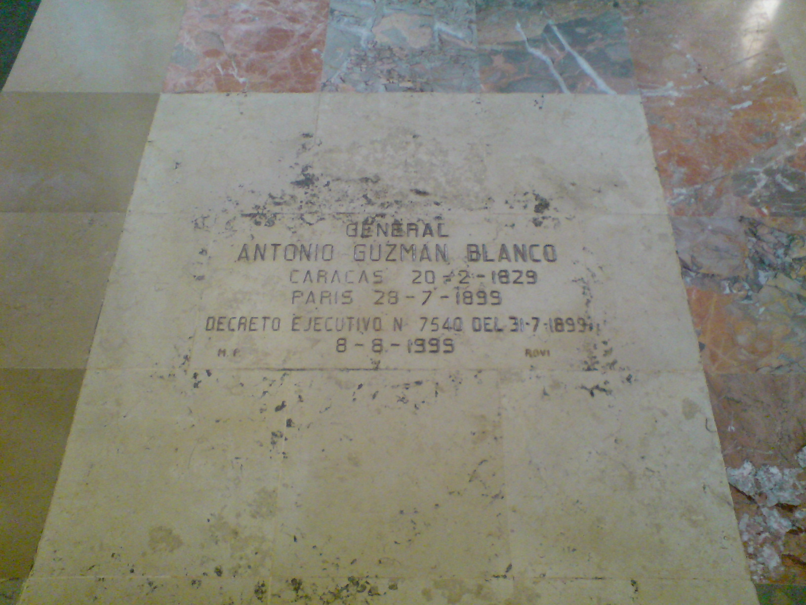 Tombstone of Antonio Guzmán Blanco. In the loor of the National Pantheon of Venezuela.